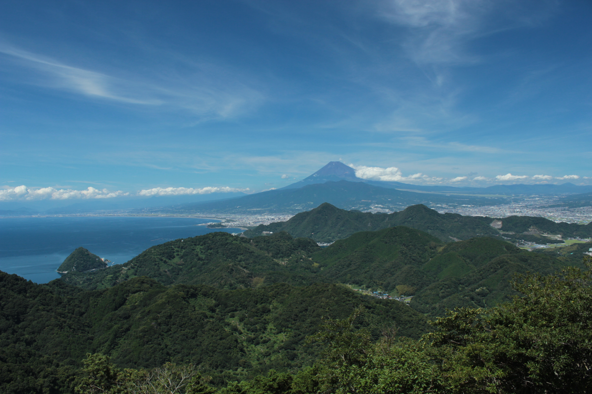 Looking north from Mount Katsuragi (Katsuragi-yama) in Izunokuni, Shizuoka Prefecture, Japan.